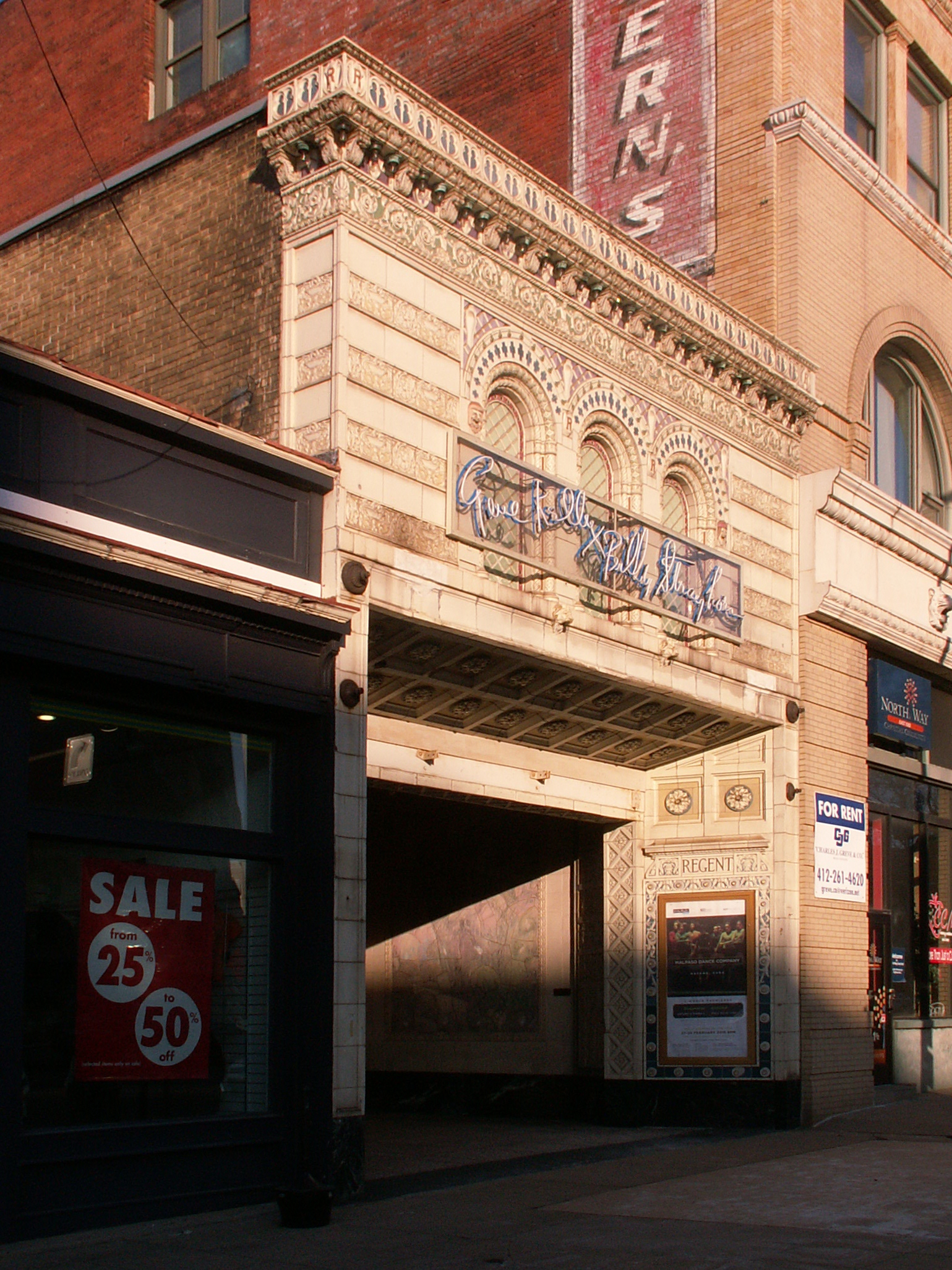 Regent Theater (now Kelly Strayhorn Theater), East Liberty, Pittsburgh